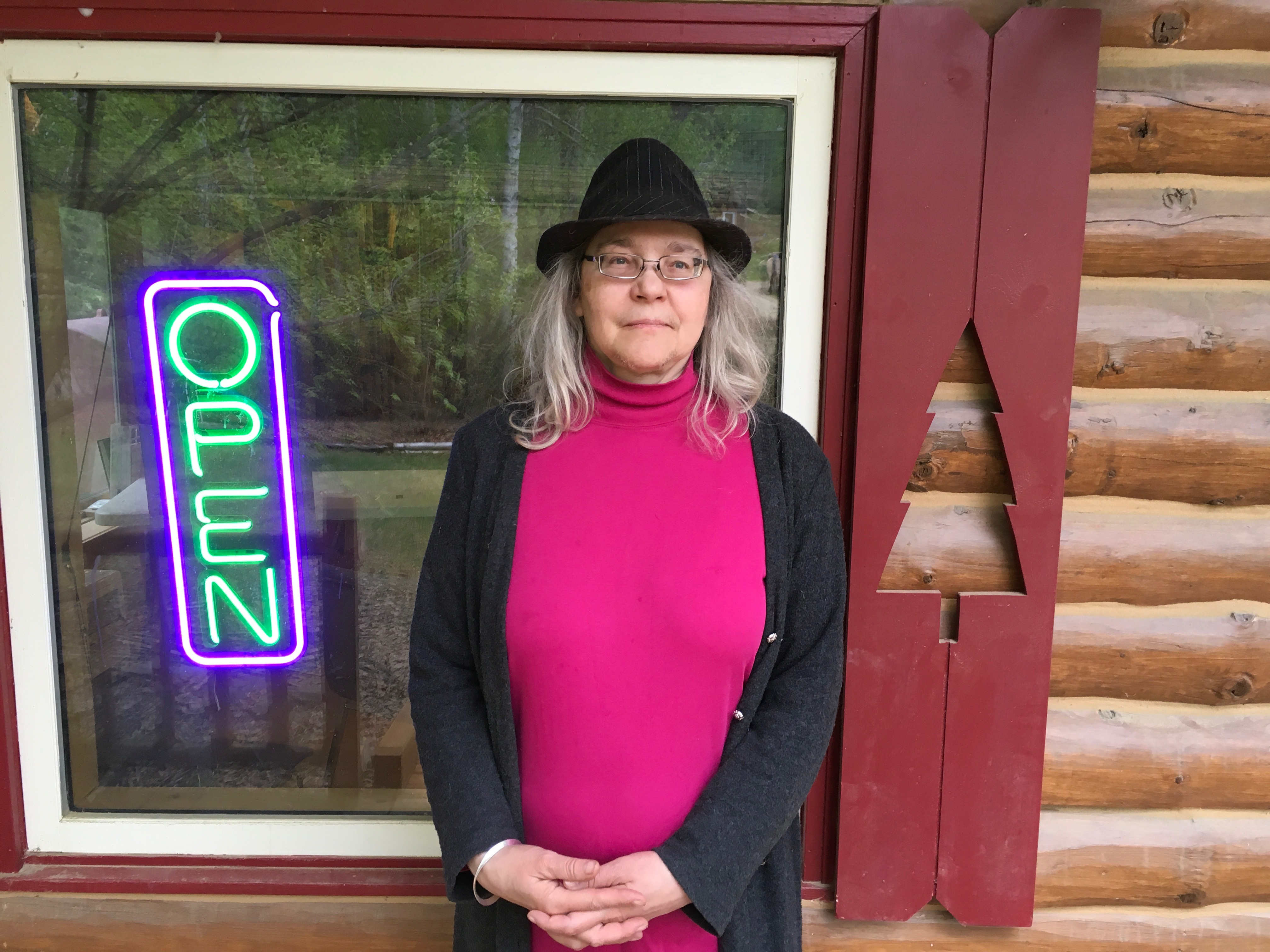 Notable figure from Ester, Alaska, Deirdre Helfferich, in front of the John Trigg Ester Library, which she was instrumental in founding.